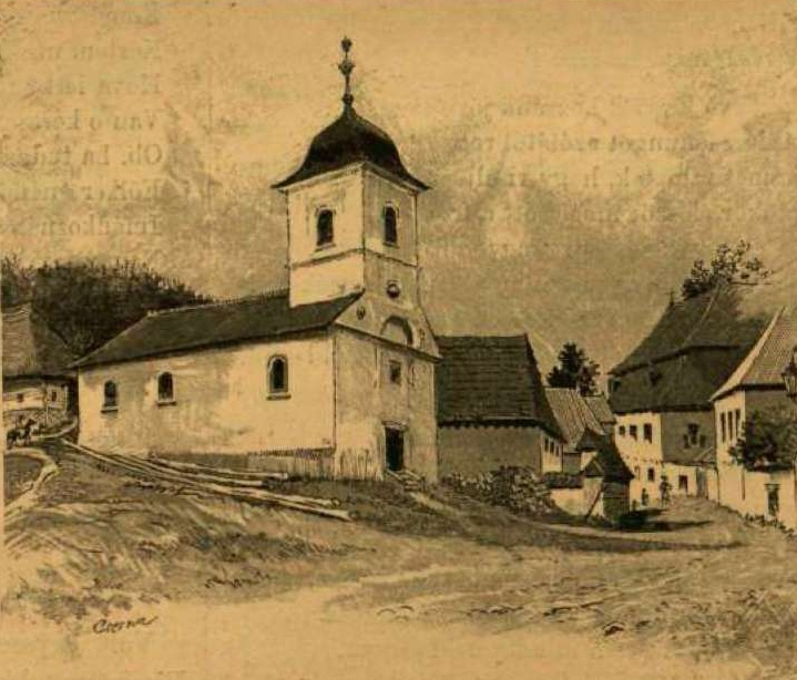 Capital of Gold Country. Roșia Montană, Alba. Romania.